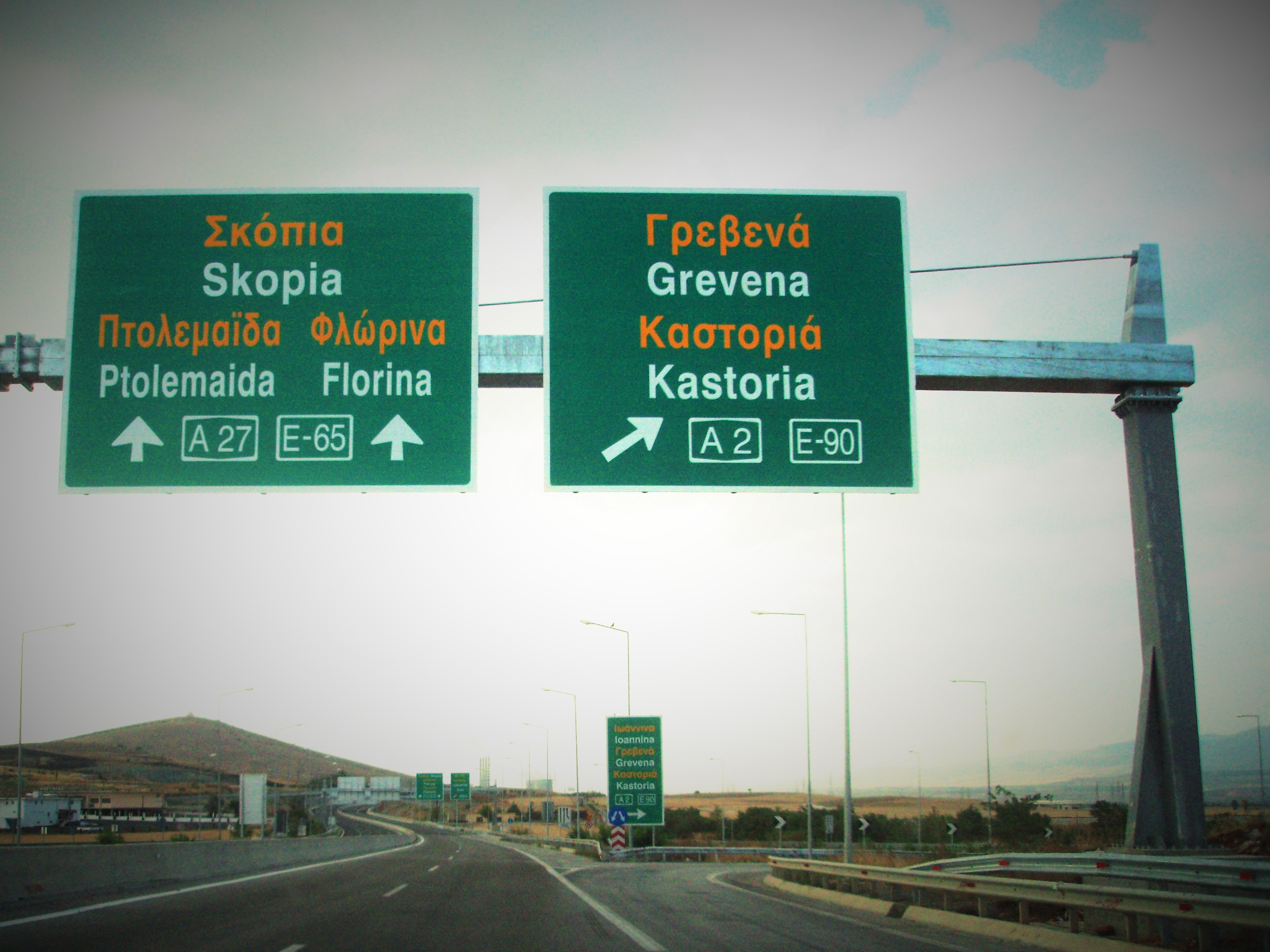 A27 motorway in Greece, section Ptolemaida-Kozani, interchange with A2 motorway (Egnatia Odos) (Kozani-North). Road sign signalling directions.